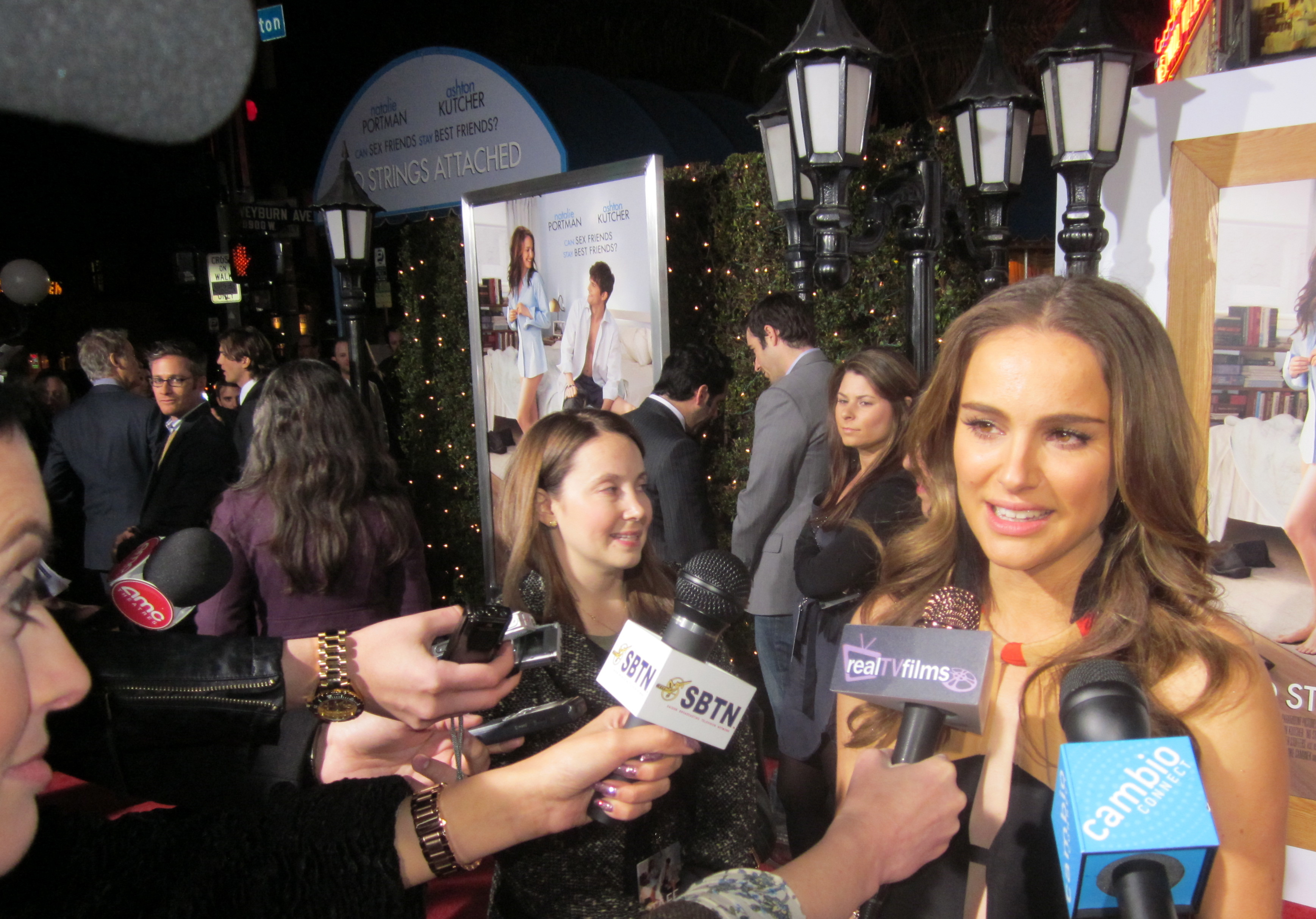 NATALIE PORTMAN, LA Premiere of "NO STRINGS ATTACHED", Regency Village Theatre, Westwood, 1-11-11. Cast members and filmmakers attending include: Ivan Reitman (Director), Natalie Portman (Emma), Ashton Kutcher (Adam), Kevin Kline (Alvin), Lake Bell (Lucy), Greta Gerwig (Patrice), Chris "Ludacris" Bridges (Wallace), Jake Johnson (Eli), Ben Lawson (Sam), Adhir Kalyan (Kevin), Brian Dierker (Bones), Stephanie Scott (Young Emma), Elizabeth Meriwether (Writer), Tom Pollock (Executive Producer) Joe Medjuck (Producer), Jeff Clifford (Producer), Roger Birnbaum (Executive Producer), Gary Barber (Executive Producer), Jonathan Glickman (Executive Producer)